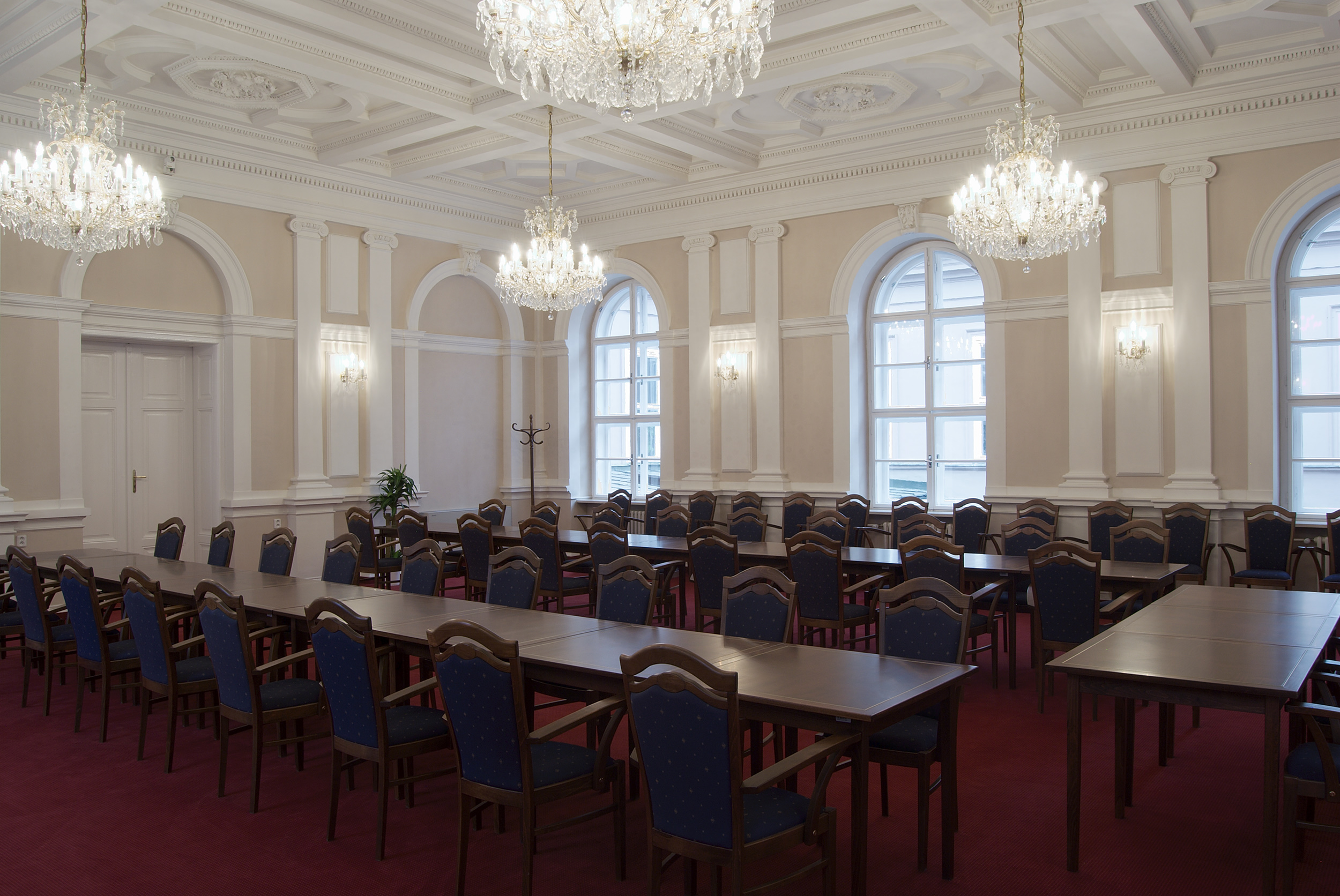 Moravian Provincial Diet - Conference Room